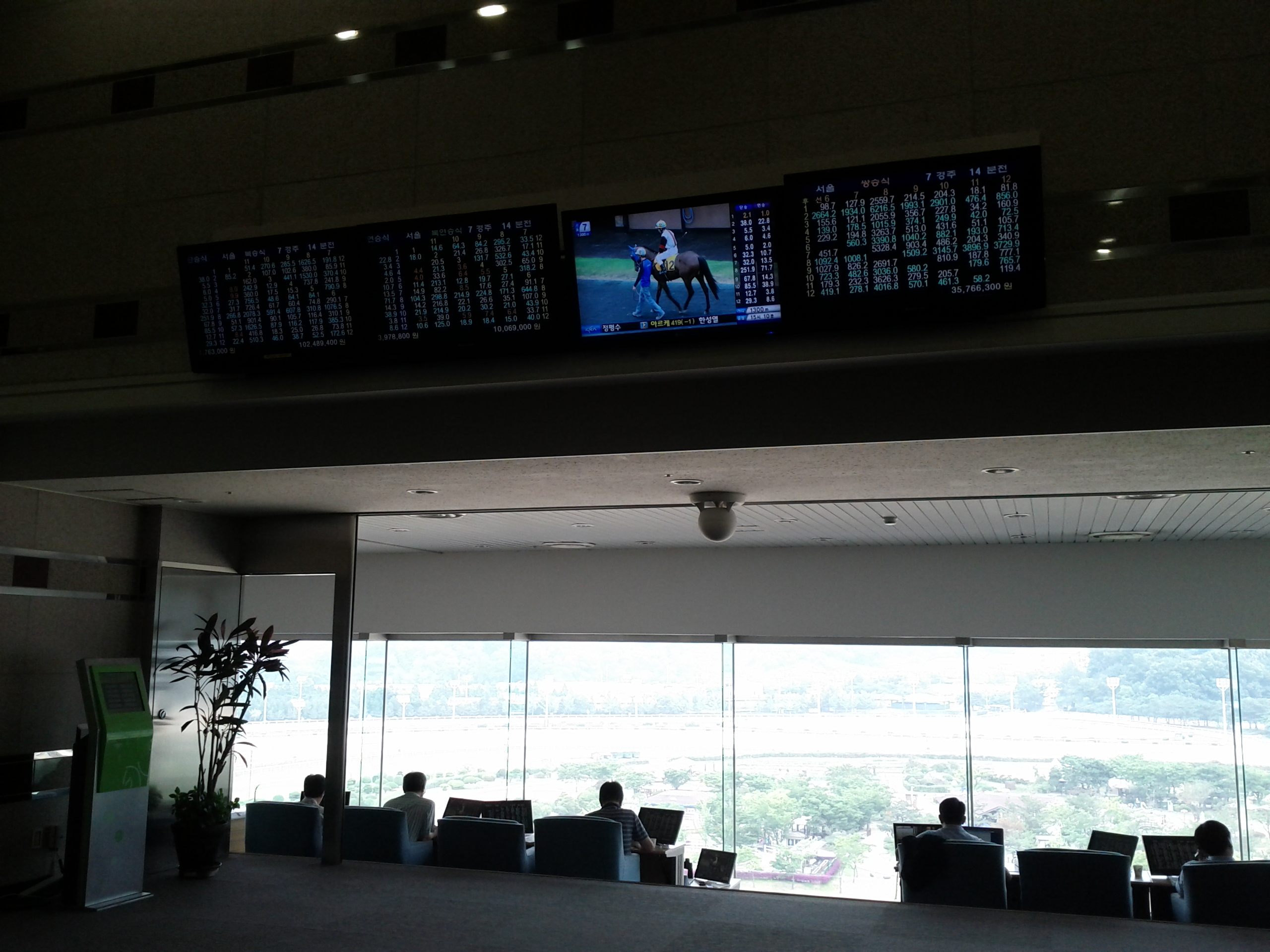 Seoul Racecourse registered member only hall(the lucky-vill 6th floor)